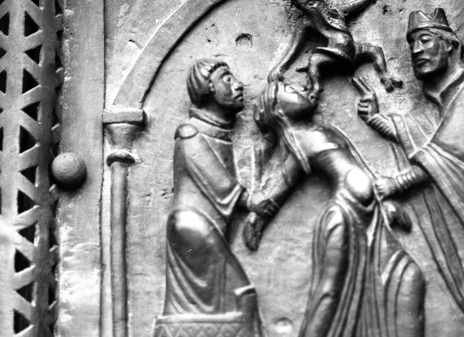 One of the 48 pronze panels of the main door Basilica di San Zeno Native nameBasilica di San ZenoLocationVerona, Veneto, ItalyCoordinates45° 26′ 33″ N, 10° 58′ 45″ E Established4c (Began constructed)